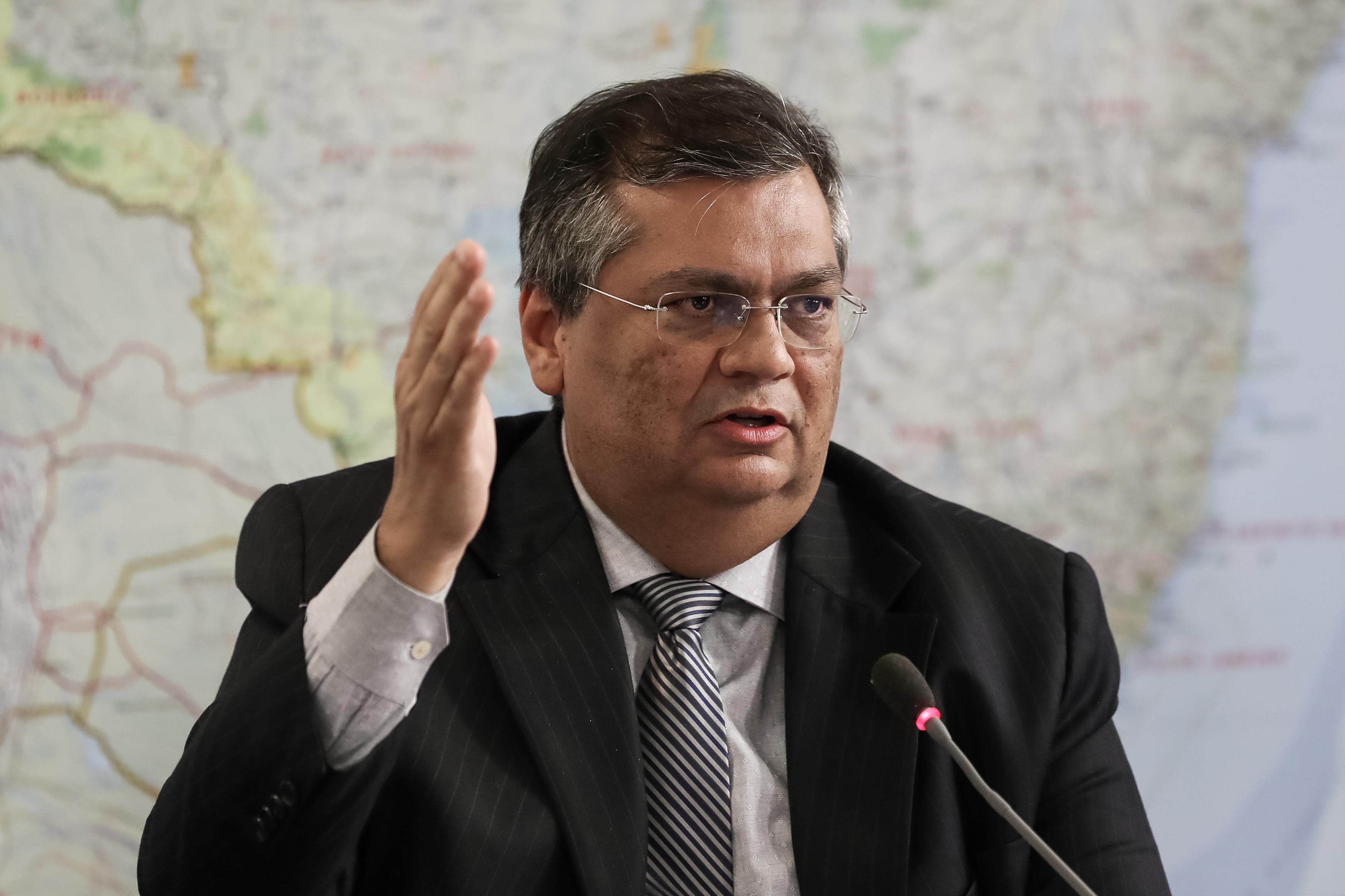 (Brasília - DF, 27/08/2019) Palavras do governador do Estado do Maranhão, Flávio Dino. Foto: Marcos Corrêa/PR